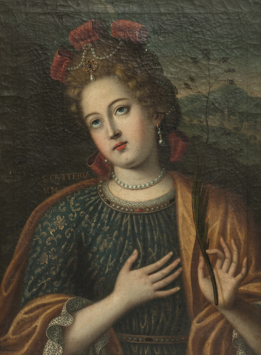 Saint Quiteria, 18th-century Portuguese School